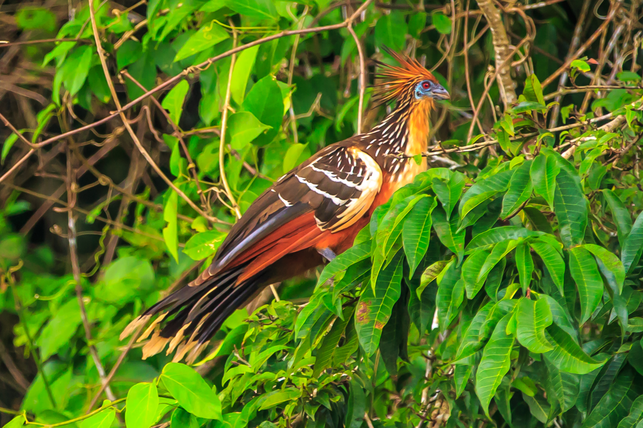 on the Rio Tambopata…the Hoatzin, the world's weirdest bird